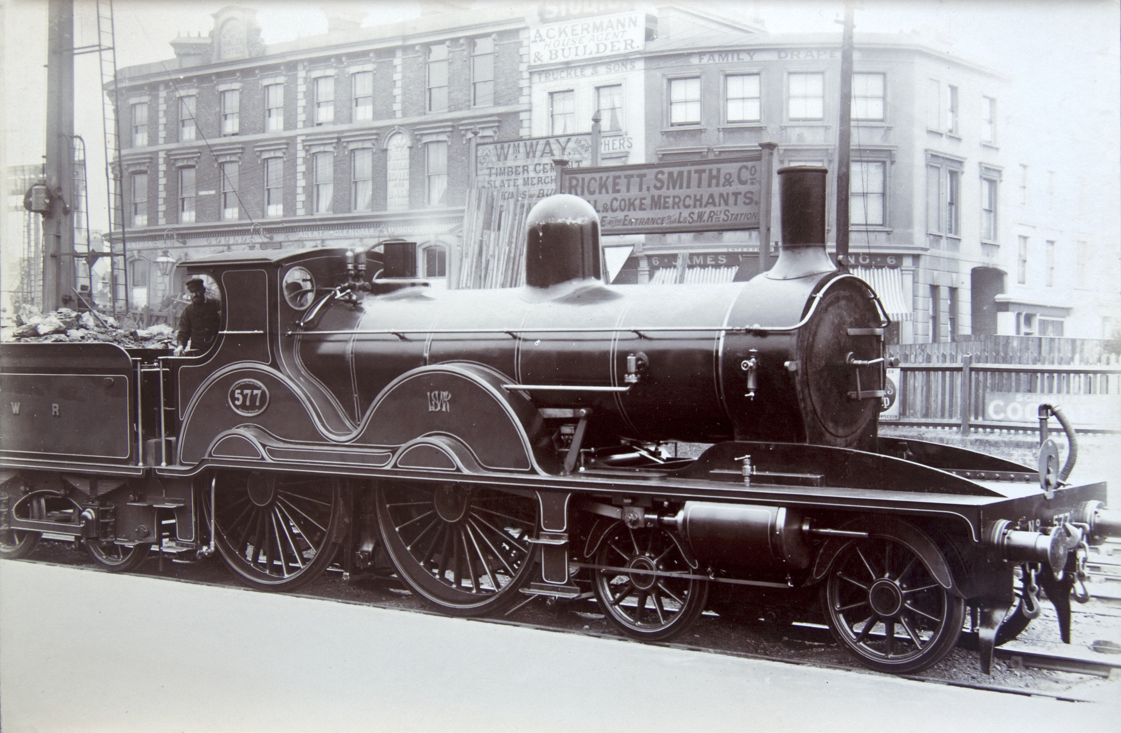 The LSWR X2 class was a class of express passenger 4-4-0 steam locomotives designed for the London and South Western Railway by William Adams. Twenty were constructed at Nine Elms Locomotive Works between 1890–1892. 577 was the first of the class built in 1890. All the class survived until the early 1930's before being withdrawn. This photo was taken from an old original photo we came across while helping to clear the house of a deceased friend. I have uploaded it to Flickr in the hope that it might be interesting to steam enthusiasts.